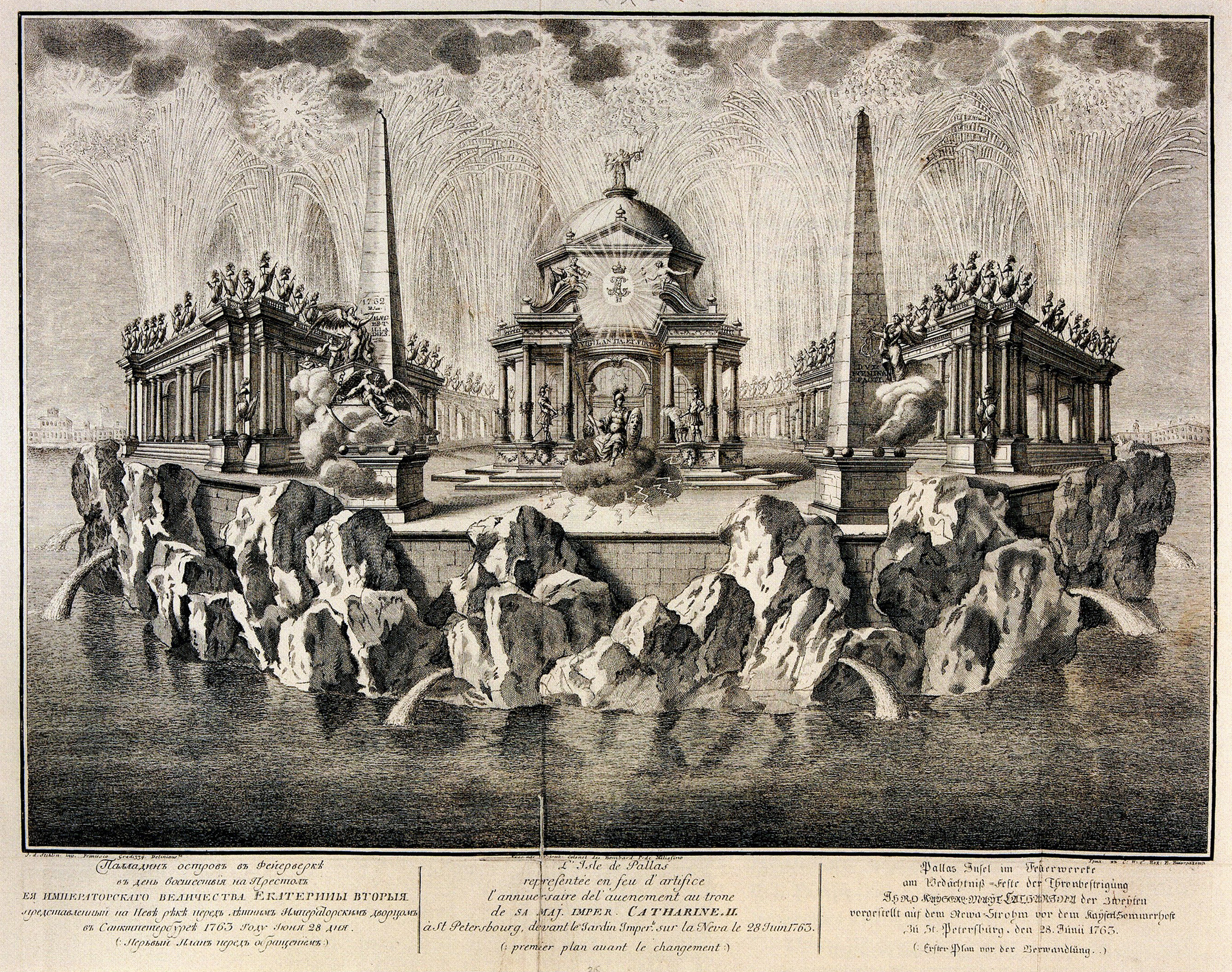 E. Vinogradov. Image of fireworks June 28, 1763 St. Petersburg. An engraving of a Francesco Gradizzi's drawing. Fireworks display in honor of Catherine II conceived Jacob von Staehlin